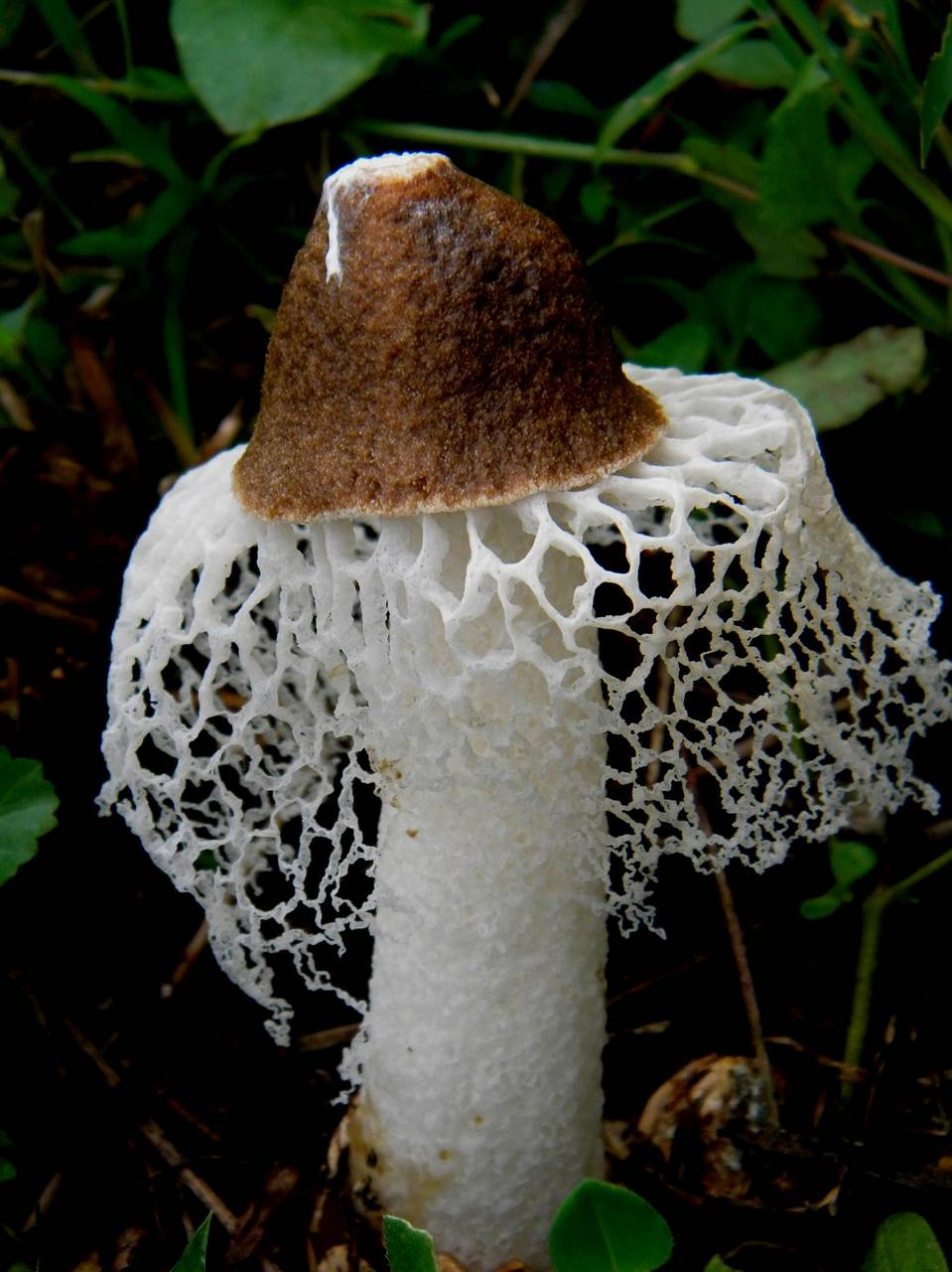 Phallus merulinus (Berk.) Cooke Image location: Cibinong, West Java, Indonesia Used references: For more information about this, see the observation page at Mushroom Observer.